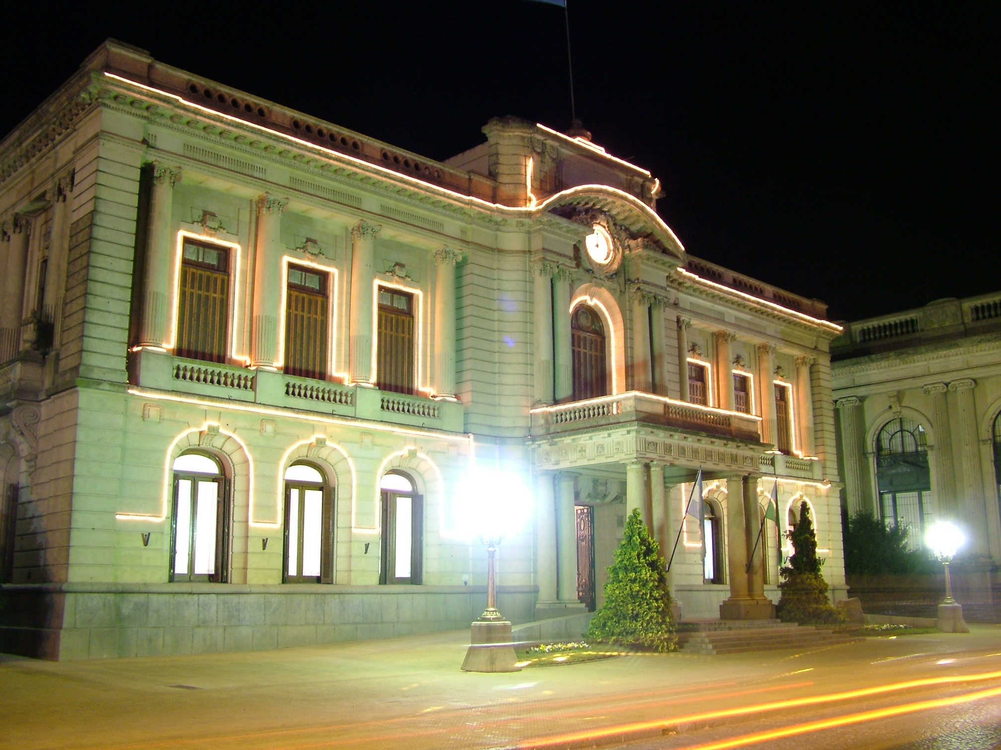 City Hall in Tandil, Buenos Aires Province, Argentina.